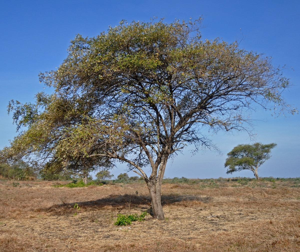 Habits of wild Ziziphus mauritiana from Bekol savanna, Baluran Nat. Park, Indonesia